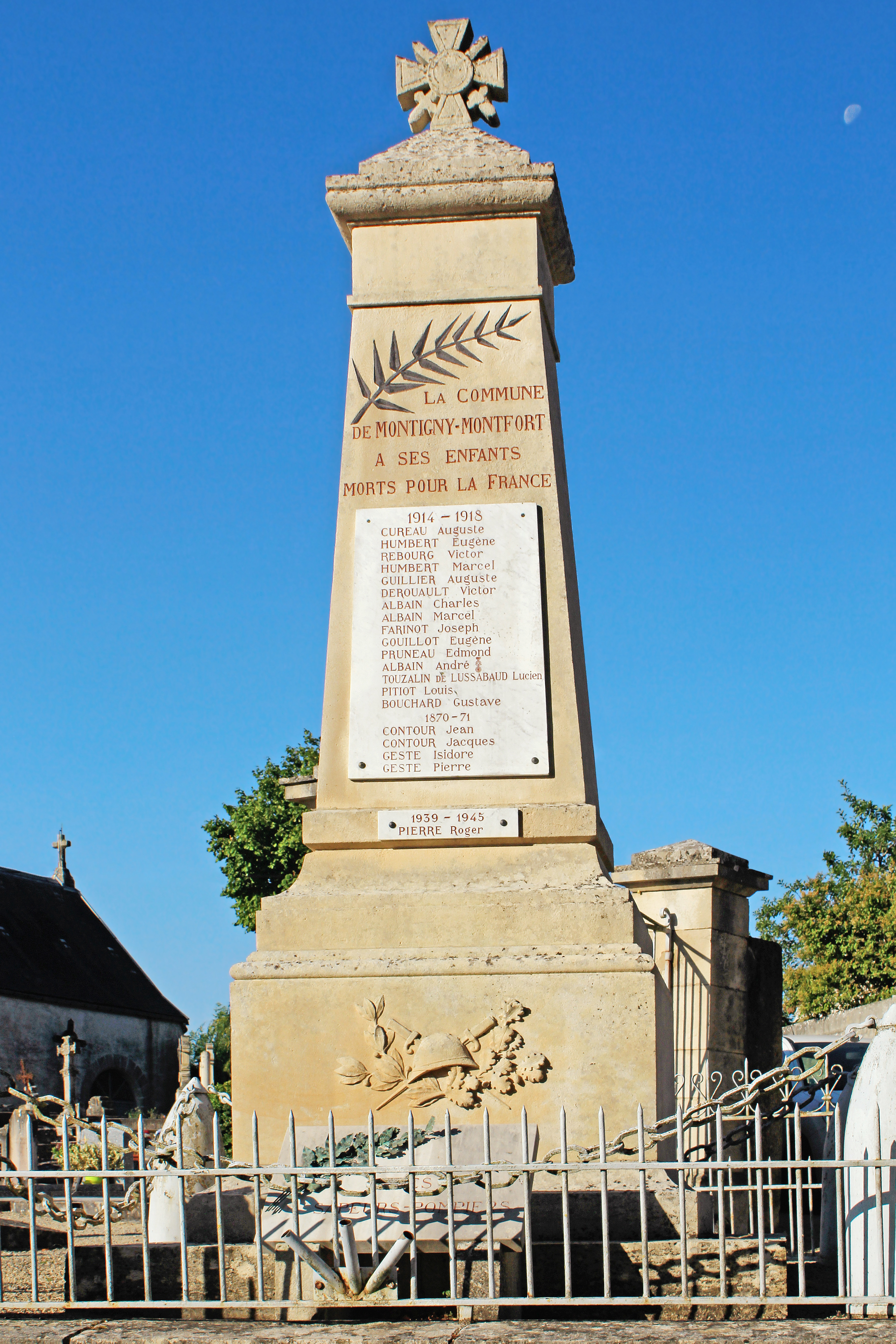 War memorial of Montigny-Montfort